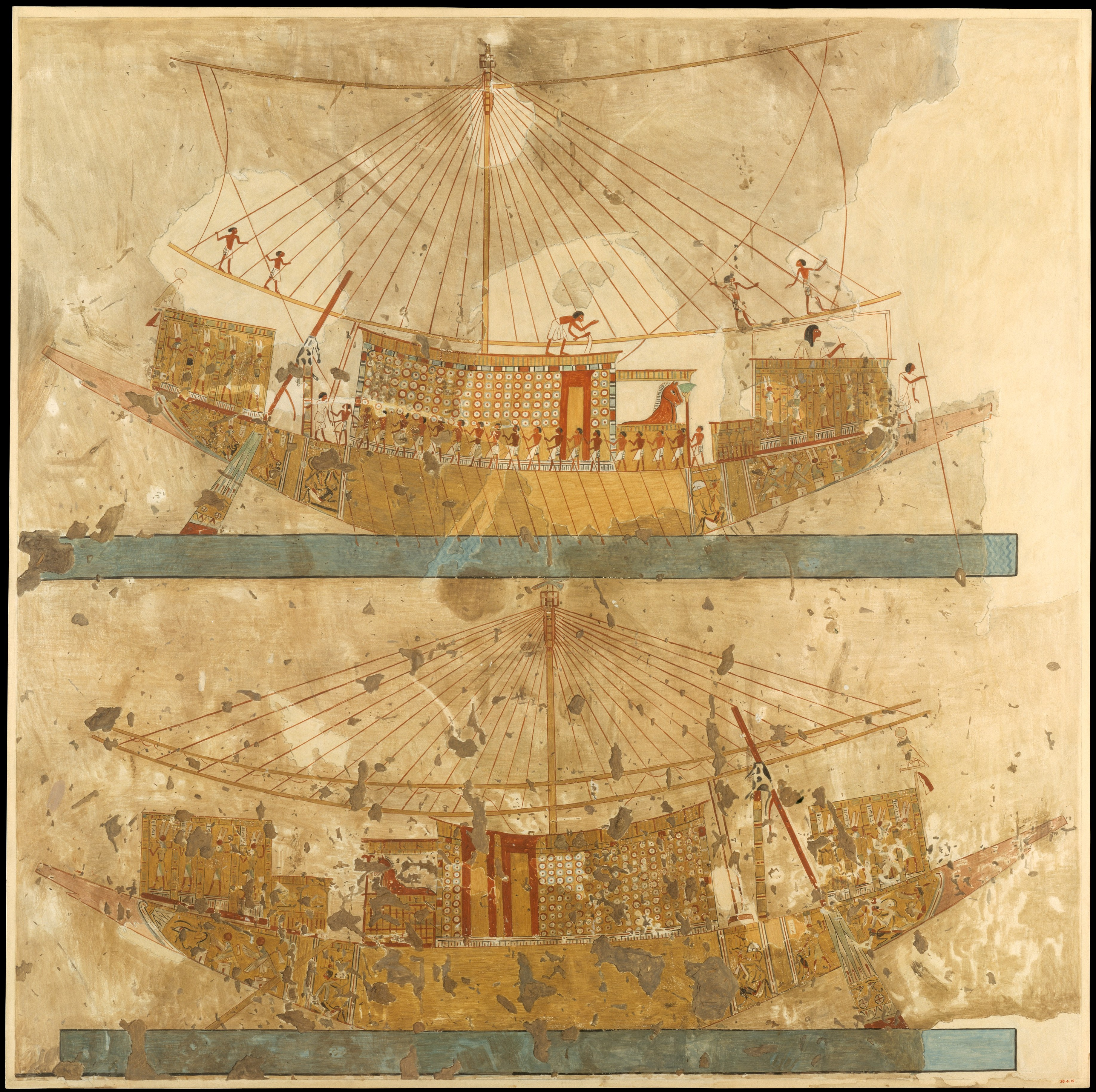 Facsimile, Amenhotep Huy (TT 40), boats